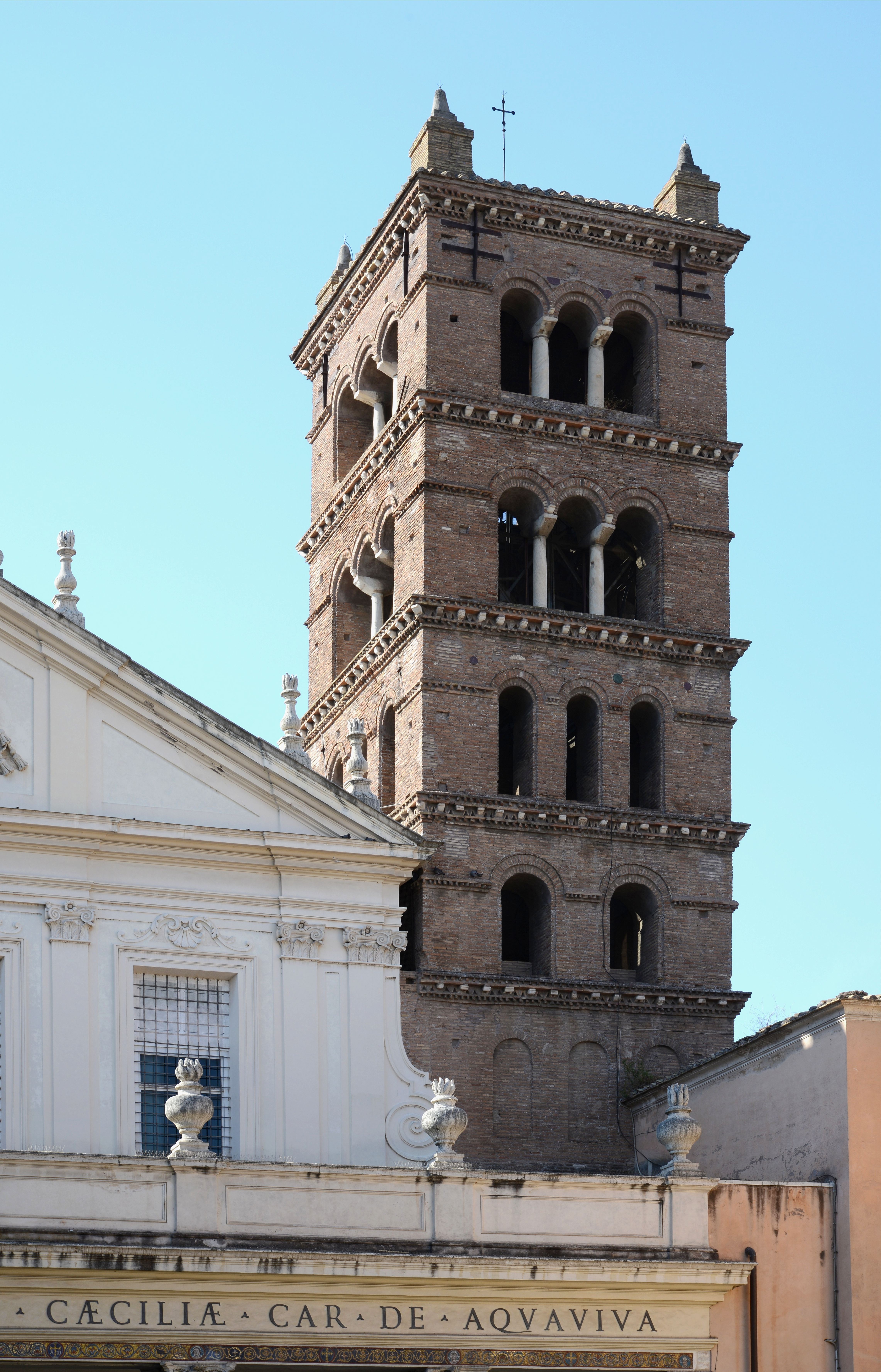 Tower of the church of Santa Cecilia in Trastevere, Rome